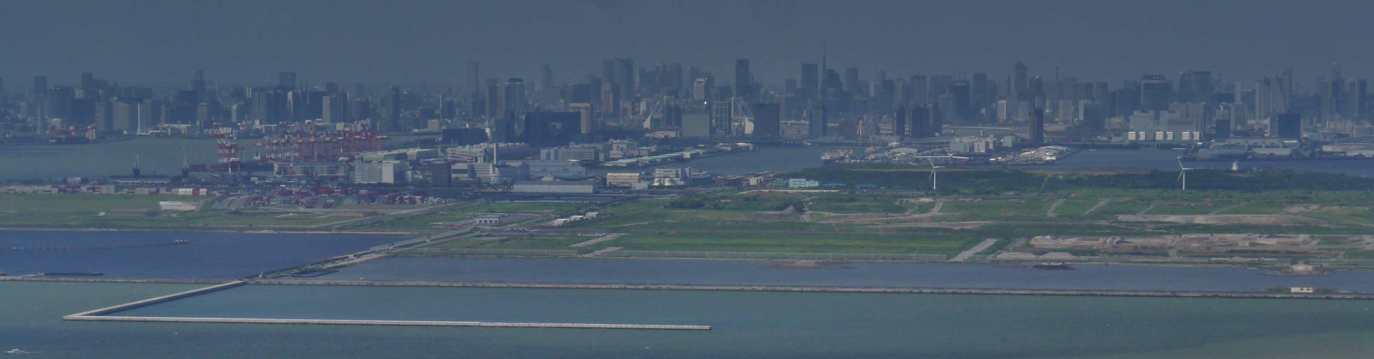 View from the Plane to Tokyo, Region of Kanto, Japan